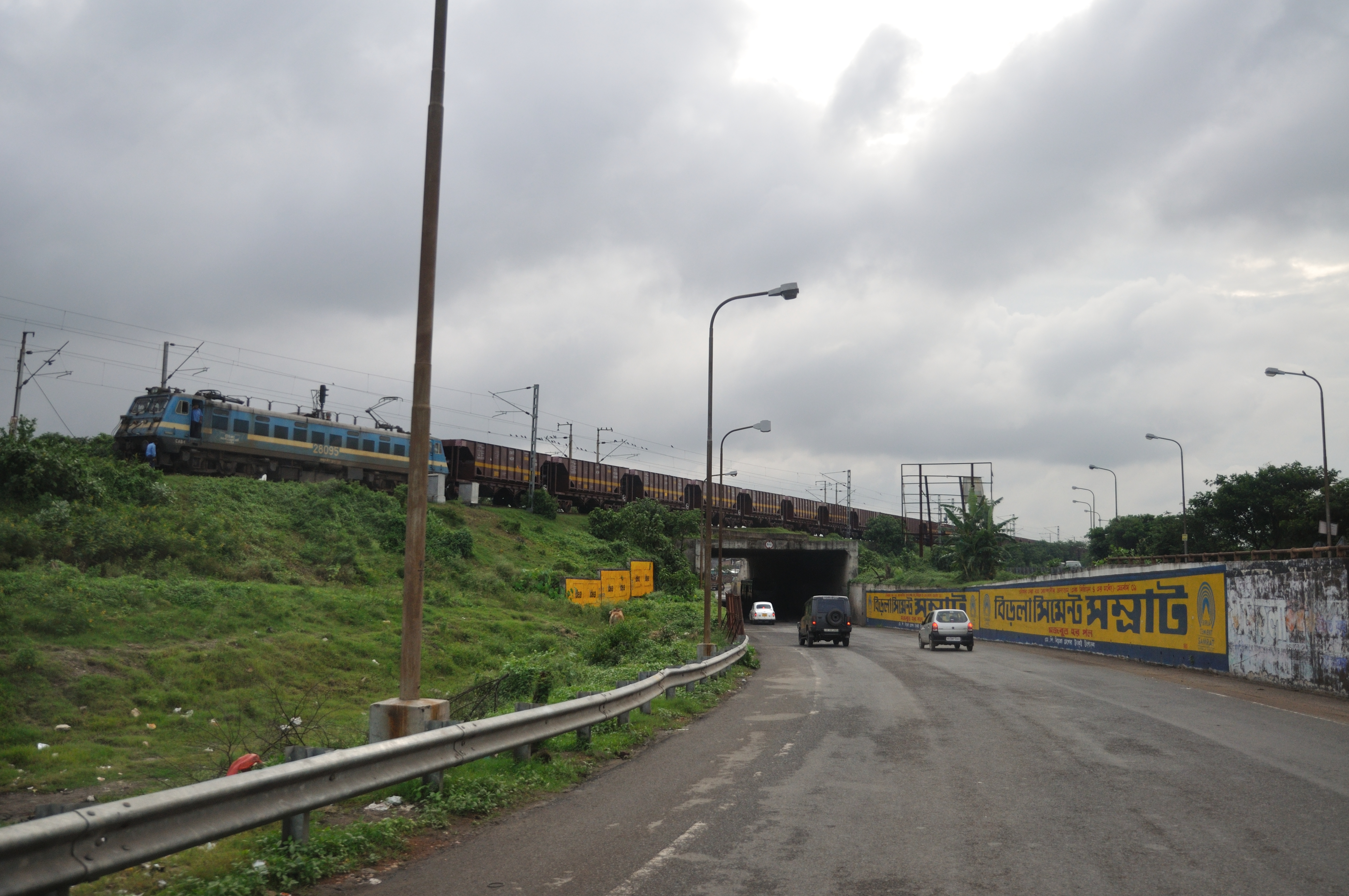 Belghoria Expressway is arterial road linking Dakshineswar and Jessore road near Netaji Subhash Chandra Bose International Airport or Dum Dum Airport. This media file is uploaded with India loves Wikipedia event.